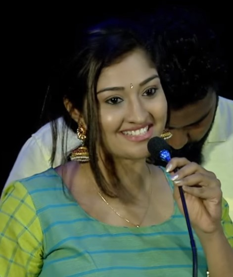 Neelima Rani at Ghajinikanth Movie press meet